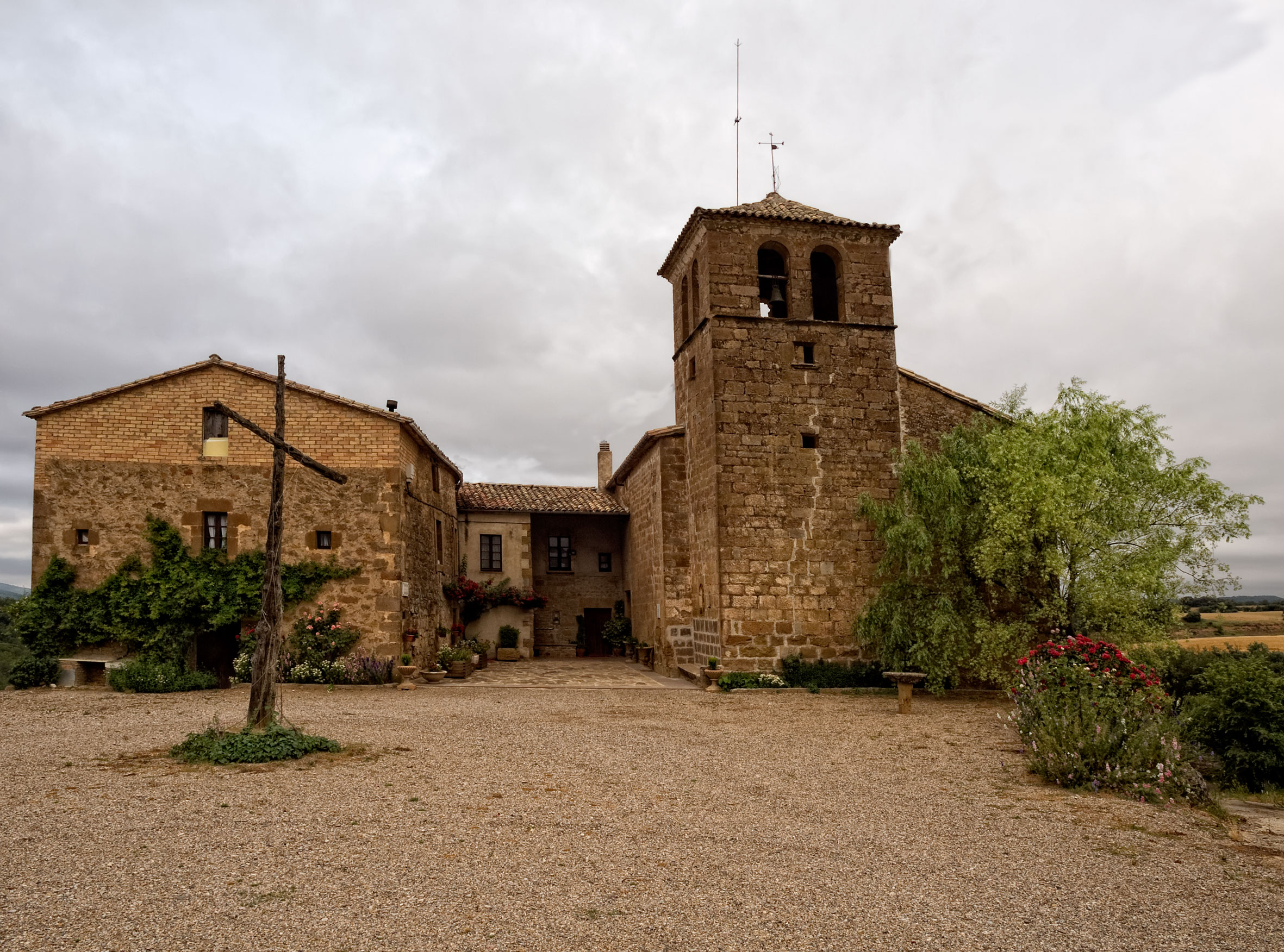 Square and church of Sant Miquel de Pinell de Solsonès (Catalonia, Spain)